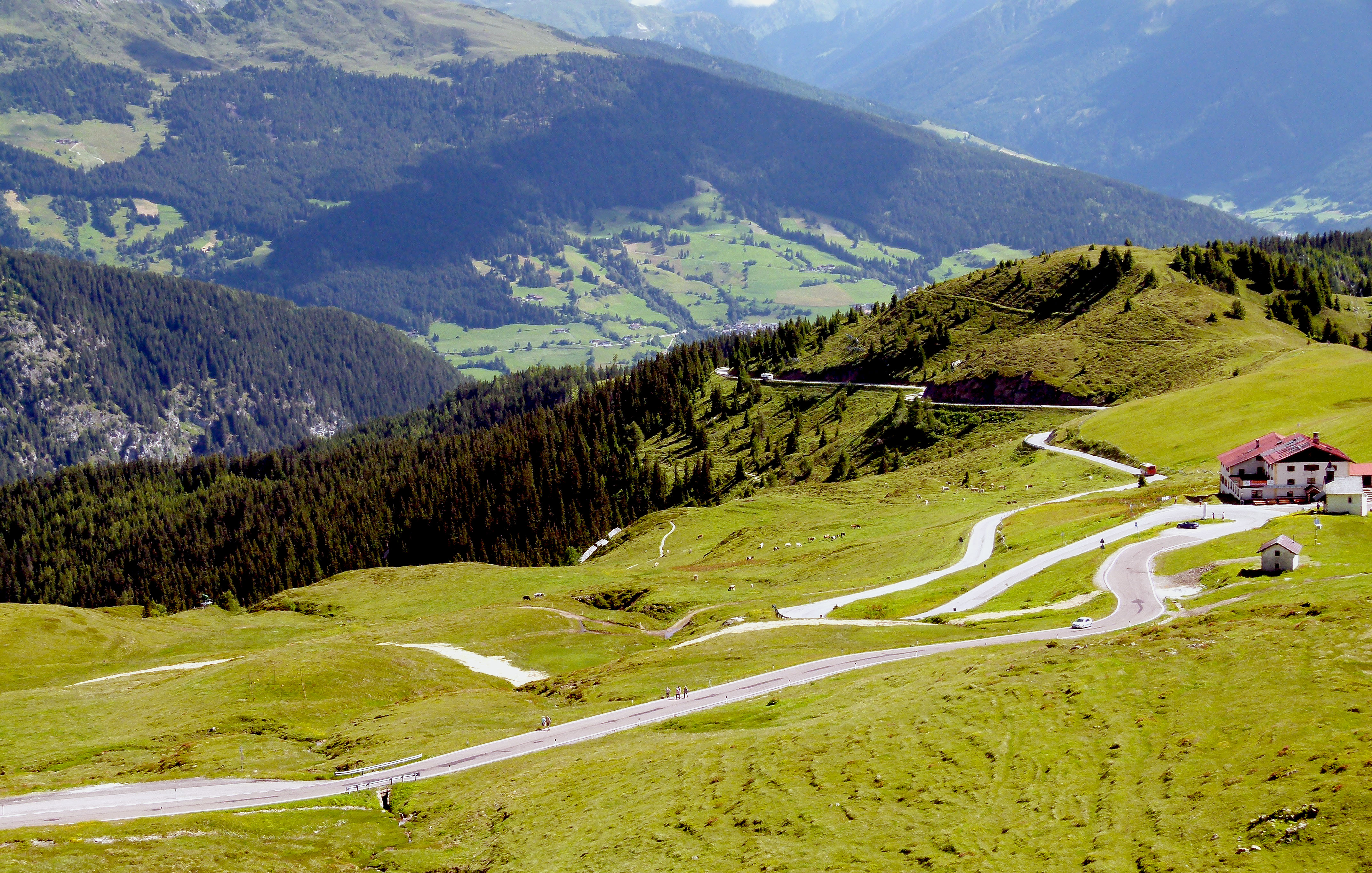 Jaufenpass, Italy